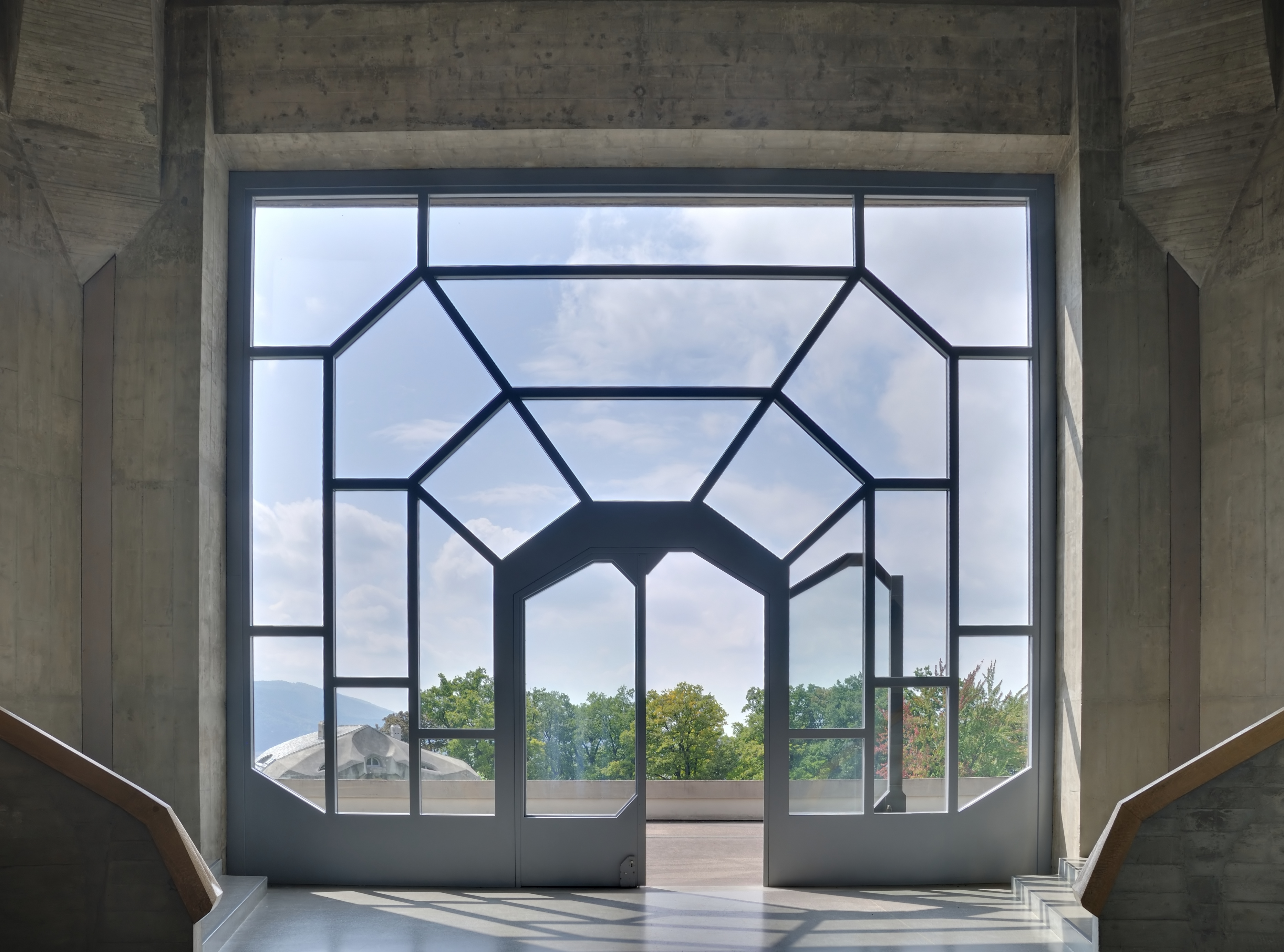 Goetheanum: western staircase, portal to terrace